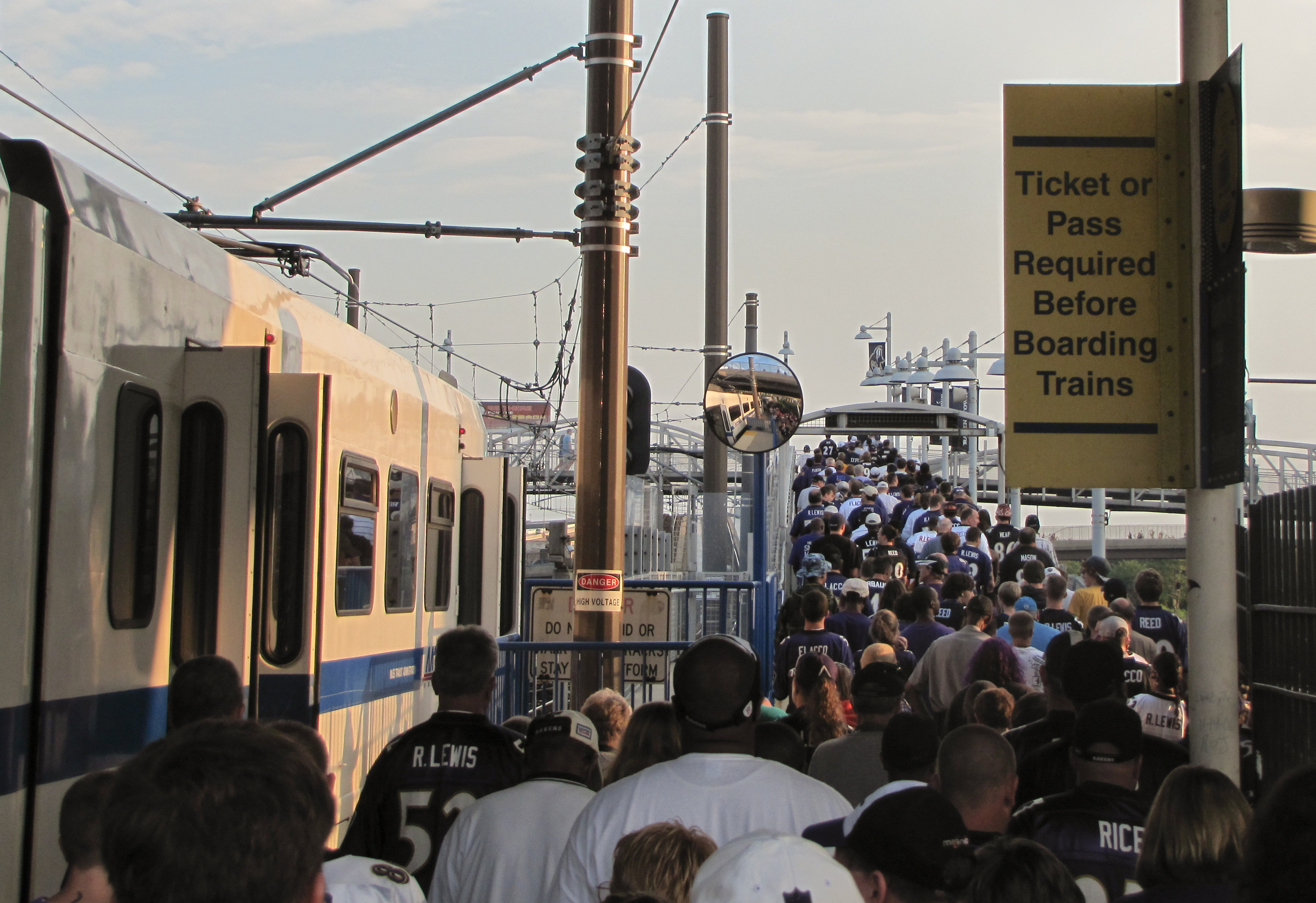 The crowd for a preseason Ravens game empties out of a Light Rail train at Hamburg Street station in August 2010